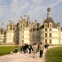 The Chateau of Chambord, one of the most famous castle of France, even if it has almost never been lived by a king. It's supposed to have been drawed by Leonardo da Vinci.